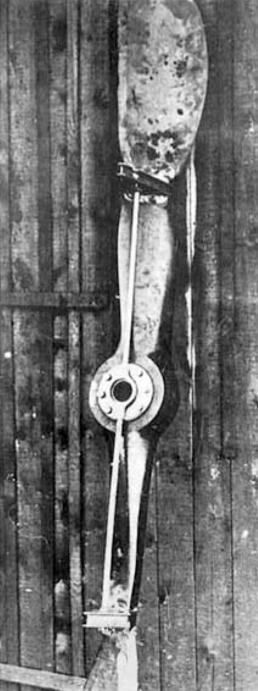 Airscrew with deflector salvaged by the Germans from Roland Garros' Morane-Saulnier L.